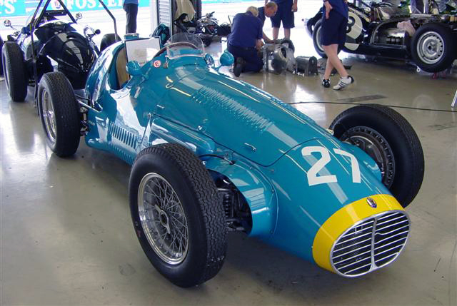 Prince Bira's Maserati A6GCM interim model, in his racing colours.